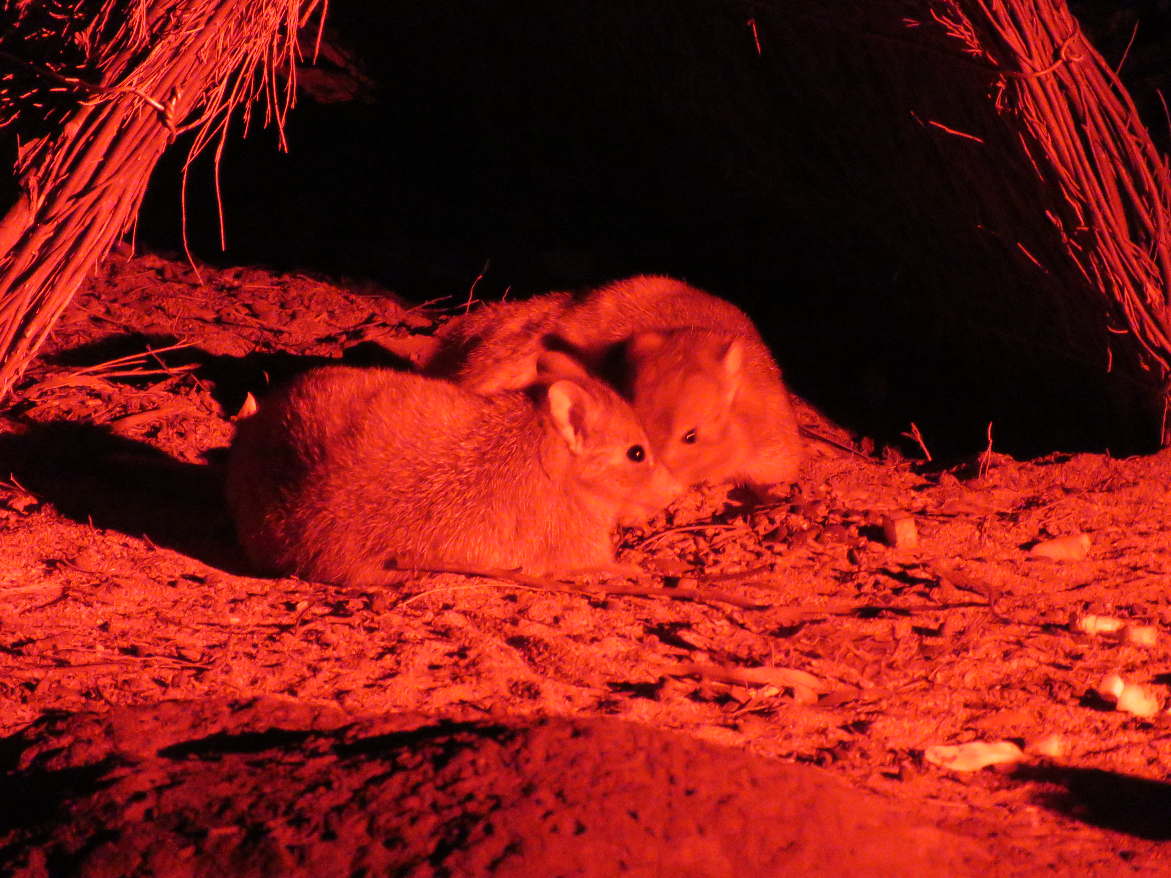 Bettongia lesueur (Quoy & Gaimard, 1824), Boodie (Burrowing Bettong), Barna Mia Sanctuary, Dryandra, WA, Australia, 12 January 2018